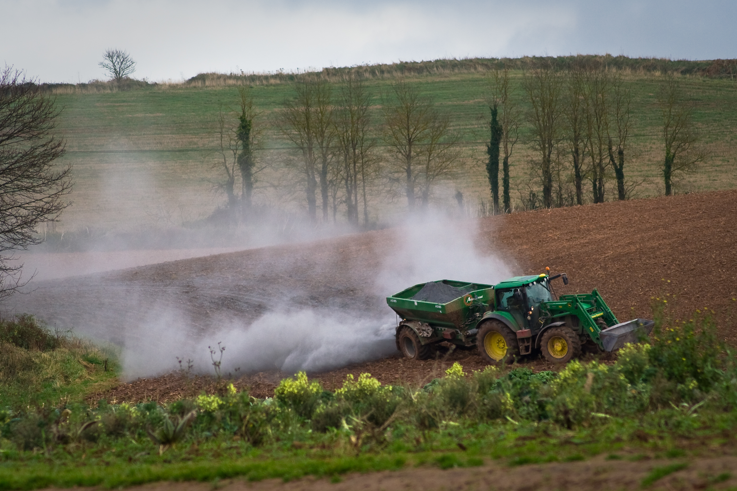 A John Deere tractor with a JD front loader and a trailed Acuspread AS85 multi-purpose spreader (fertiliser, lime … spreader) spreading lime on a Devon field, England, UK.